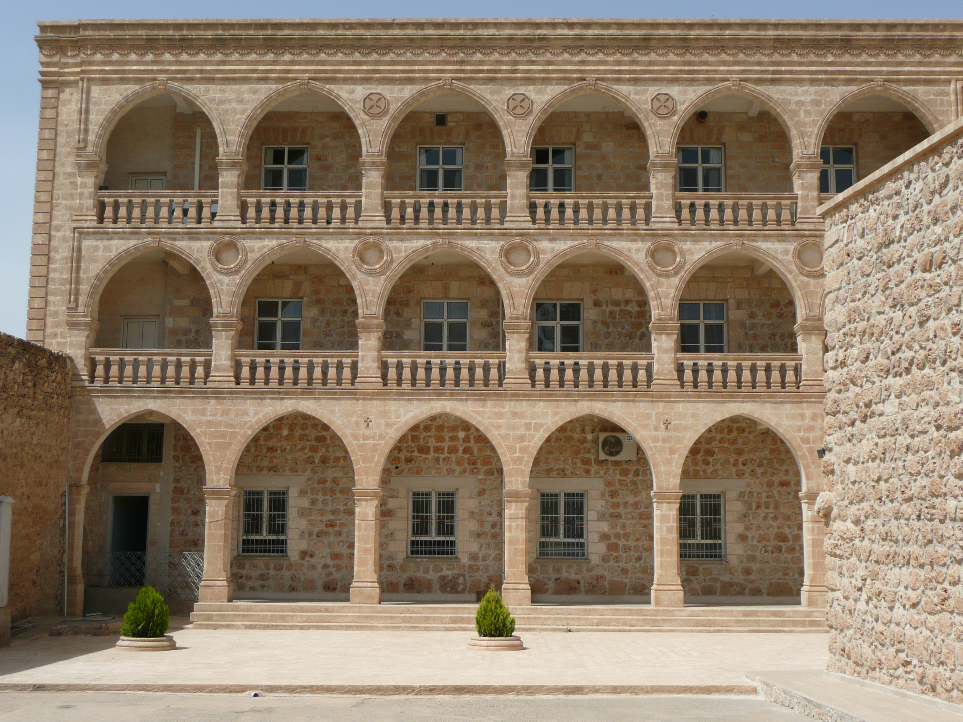 Photographs from Deyrulumur (Mor Gabriel Monastery) , Midyat, Turkey